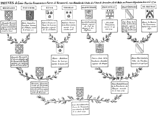 "Huit quartiers" of Charles de Mesnard, demonstrating eligibility for knightly order.